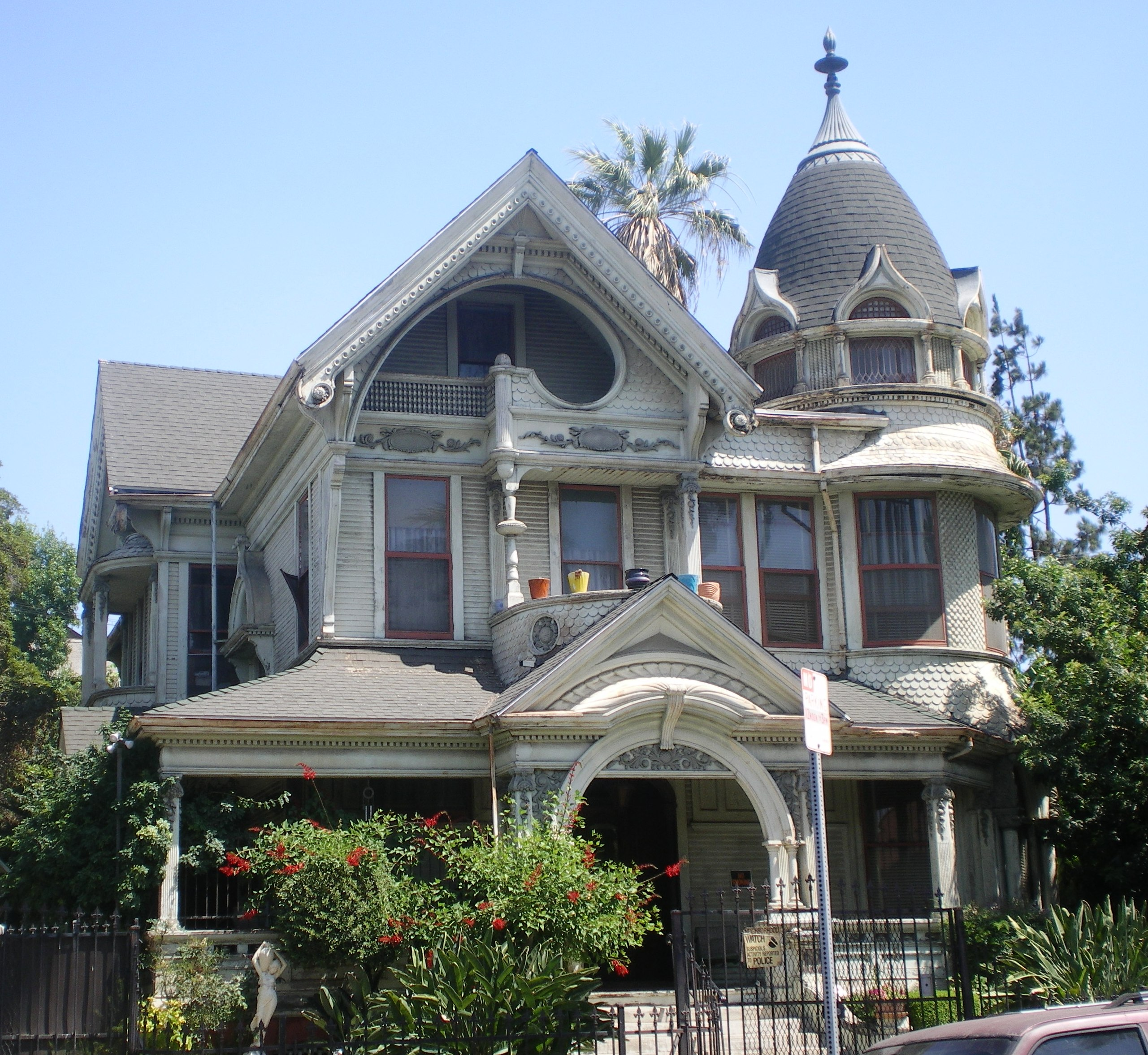 Frederick Mitchell Mooers House, 818 S. Bonnie Brae St., Los Angeles, California (LA Cultural Heritage Monument No. 45)